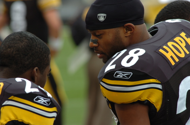 Pittsburgh Steelers safety Chris Hope (right) with an unidentified player (Deshea Townsend?)